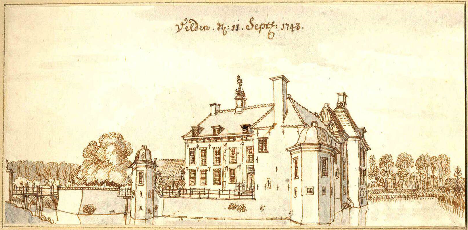 Huis 't Velde in Warnsveld near Zutphen in the Netherlands.